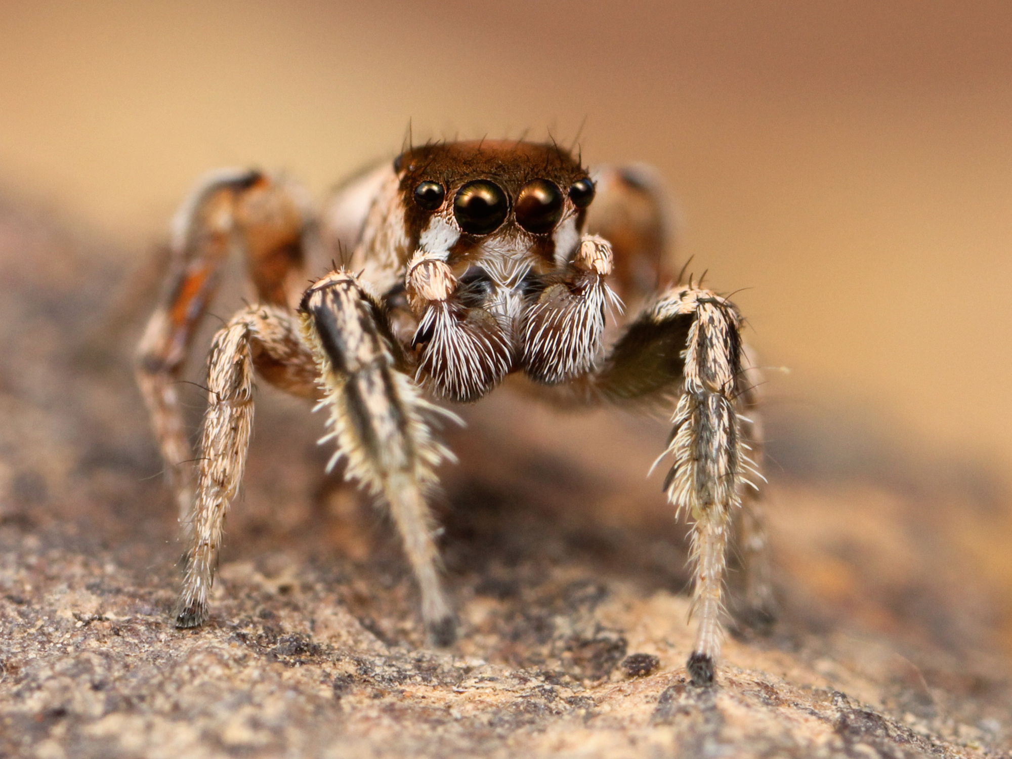 Adult male Habronattus dossenus jumping spider from the Santa Rita Mountains in Arizona. Cropped version of original.